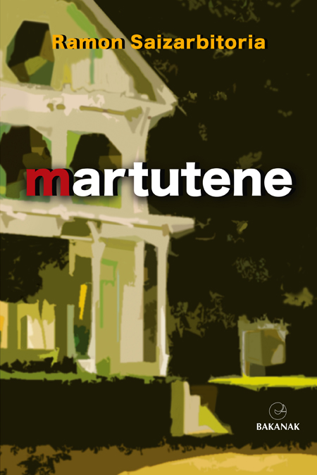 Front cover of Martutene.